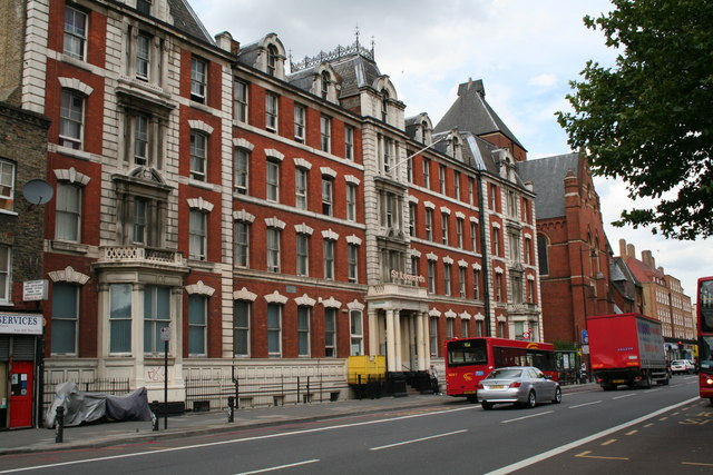 St Leonard's Hospital, Kingsland Road, London This building started as a workhouse, became a hospital and is now a care home.